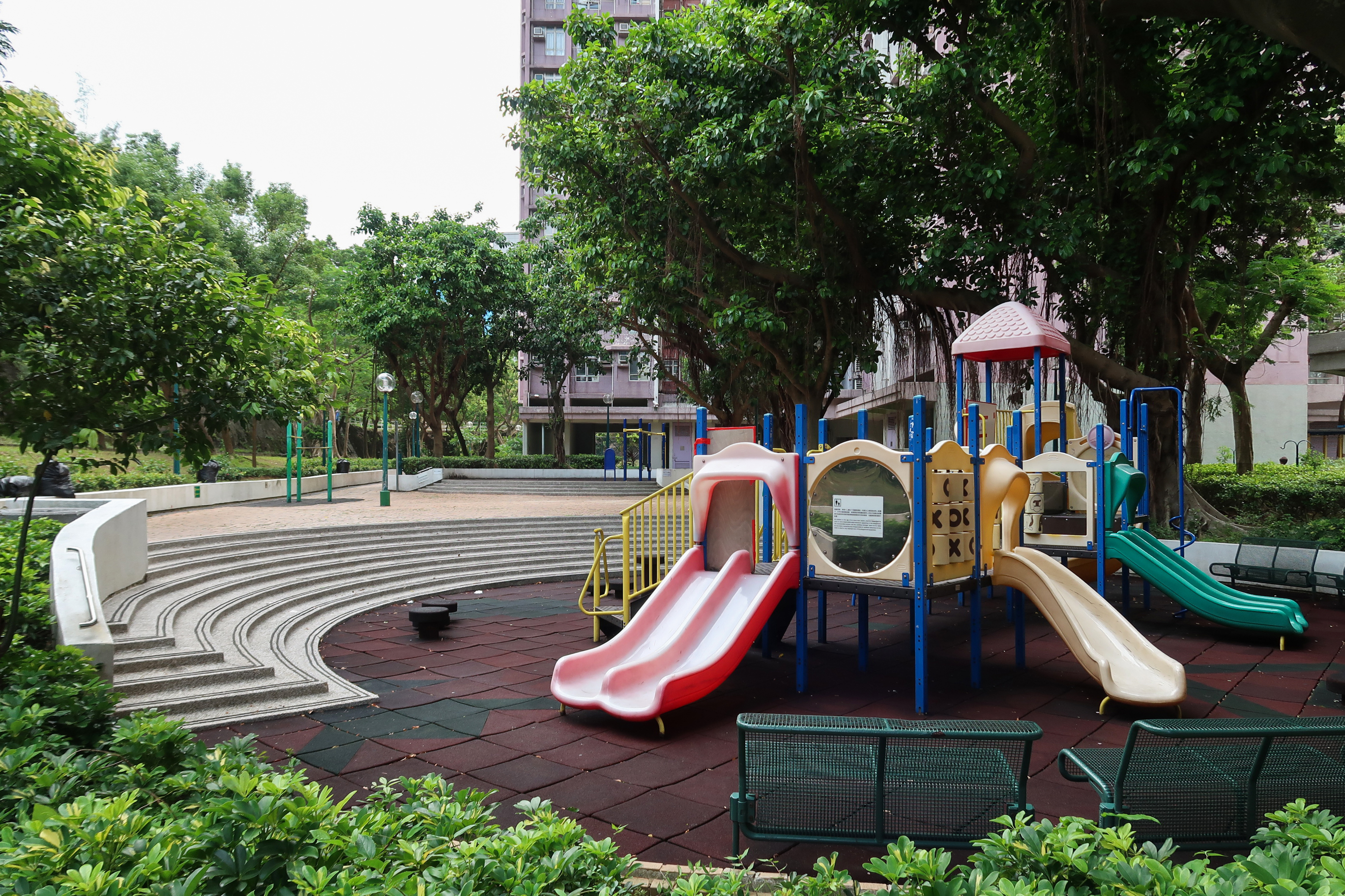 Yu Tung Court Children Play Area